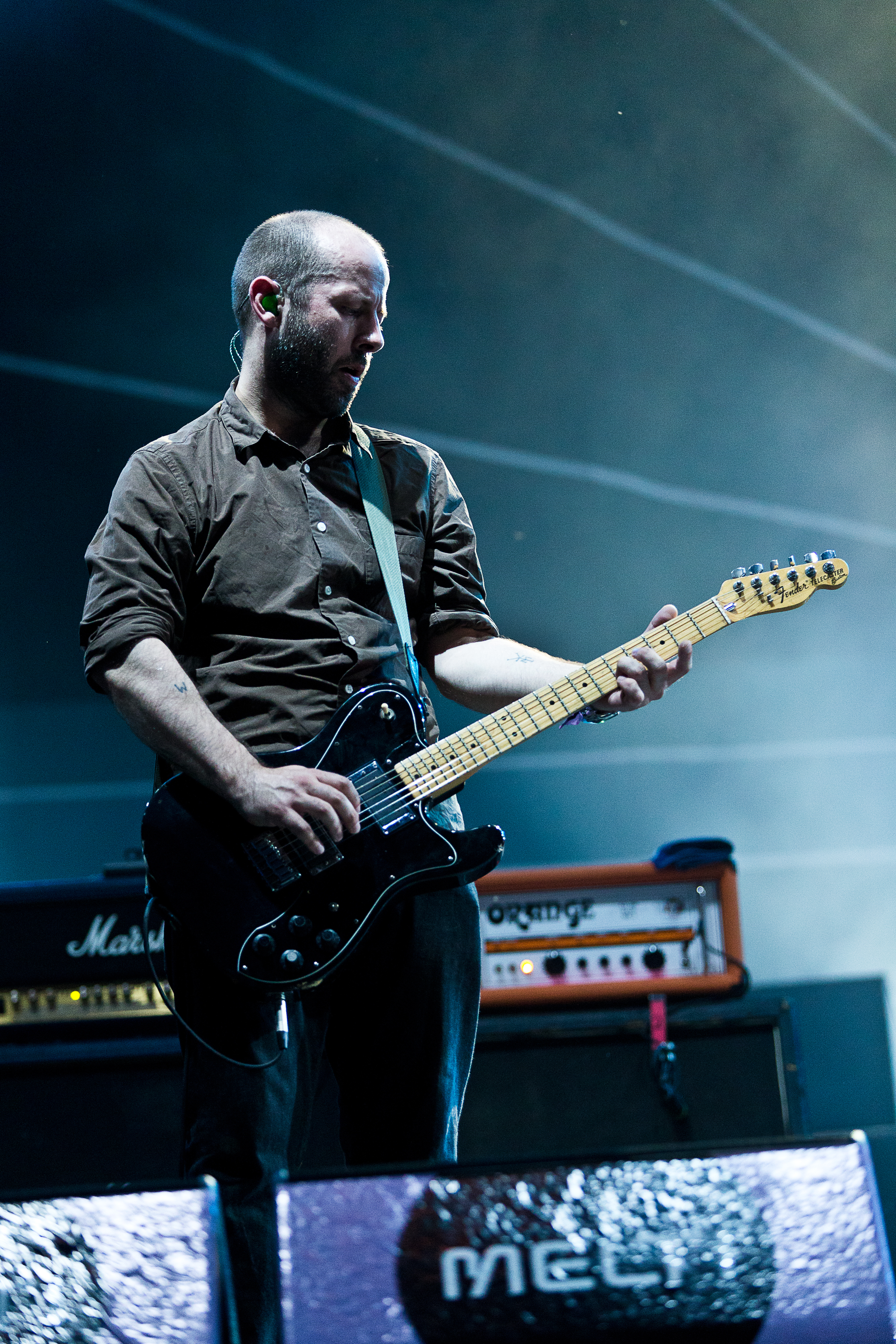 The Scottish post-rock band Mogwai at the Melt! 2015 in Ferropolis/Germany.